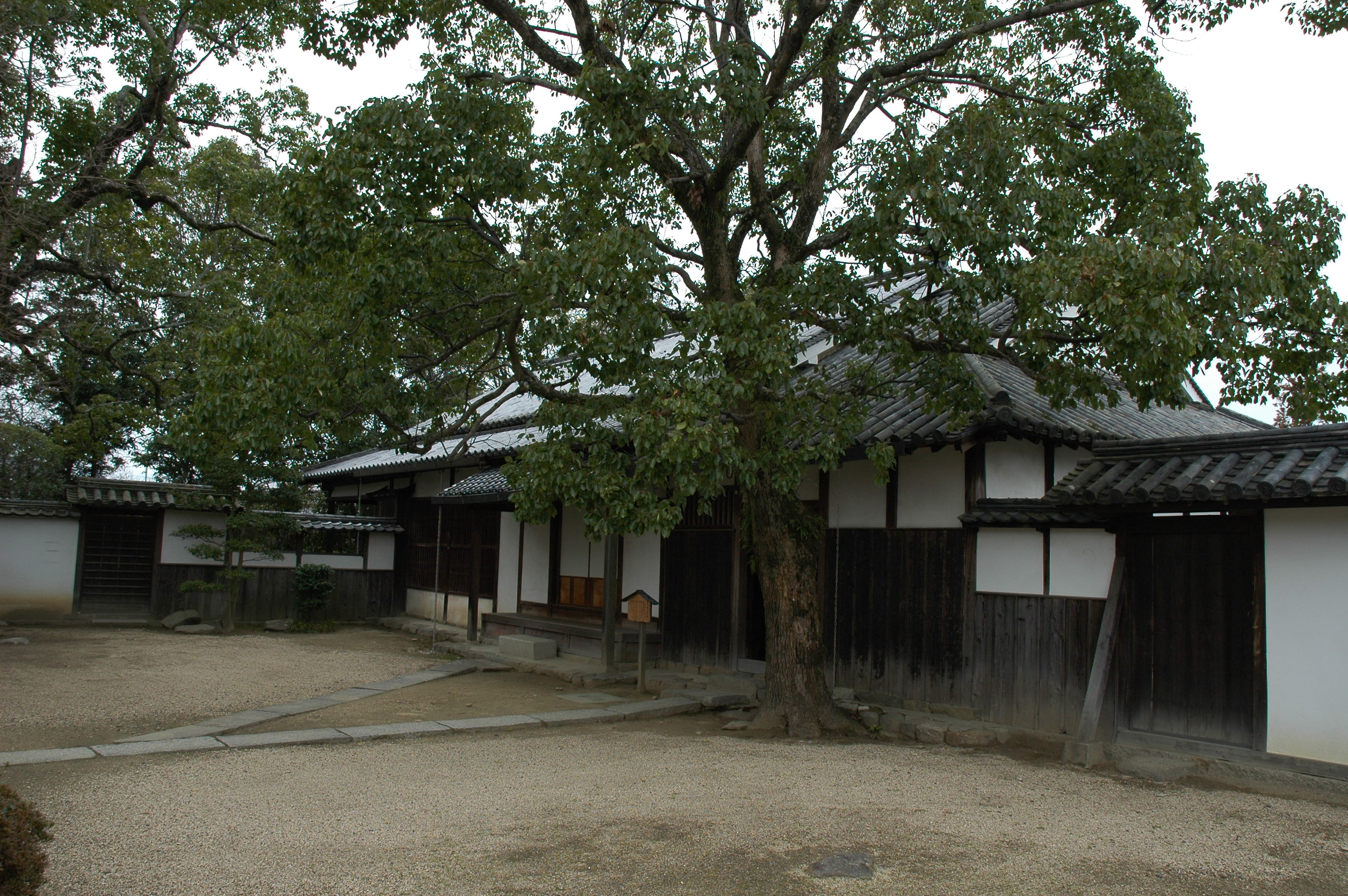 The Inukai House, home of Tsuyoshi Inukai, Prime Minister of Japan, built in the middle of the Edo period(Japan's national important cultural property)